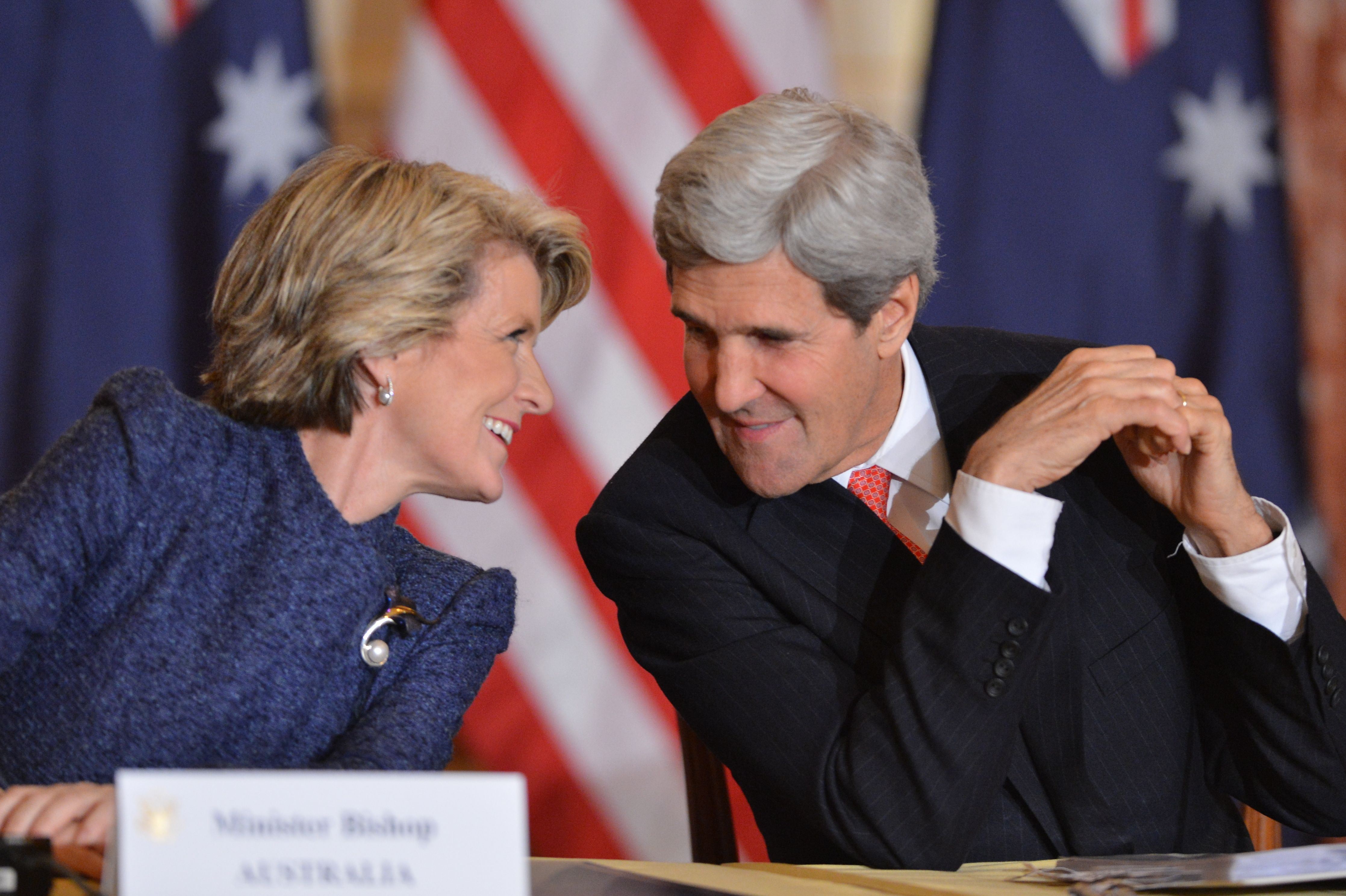 U.S. Secretary of State John Kerry and Australian Foreign Minister Julie Bishop share a laugh during a joint press conference with U.S. Secretary of Defense Chuck Hagel and Australian Minister of Defence David Johnston during the Australia-United States Ministerial Consultations at the U.S. Department of State in Washington, D.C., on November 20, 2013. [State Department photo/ Public Domain]